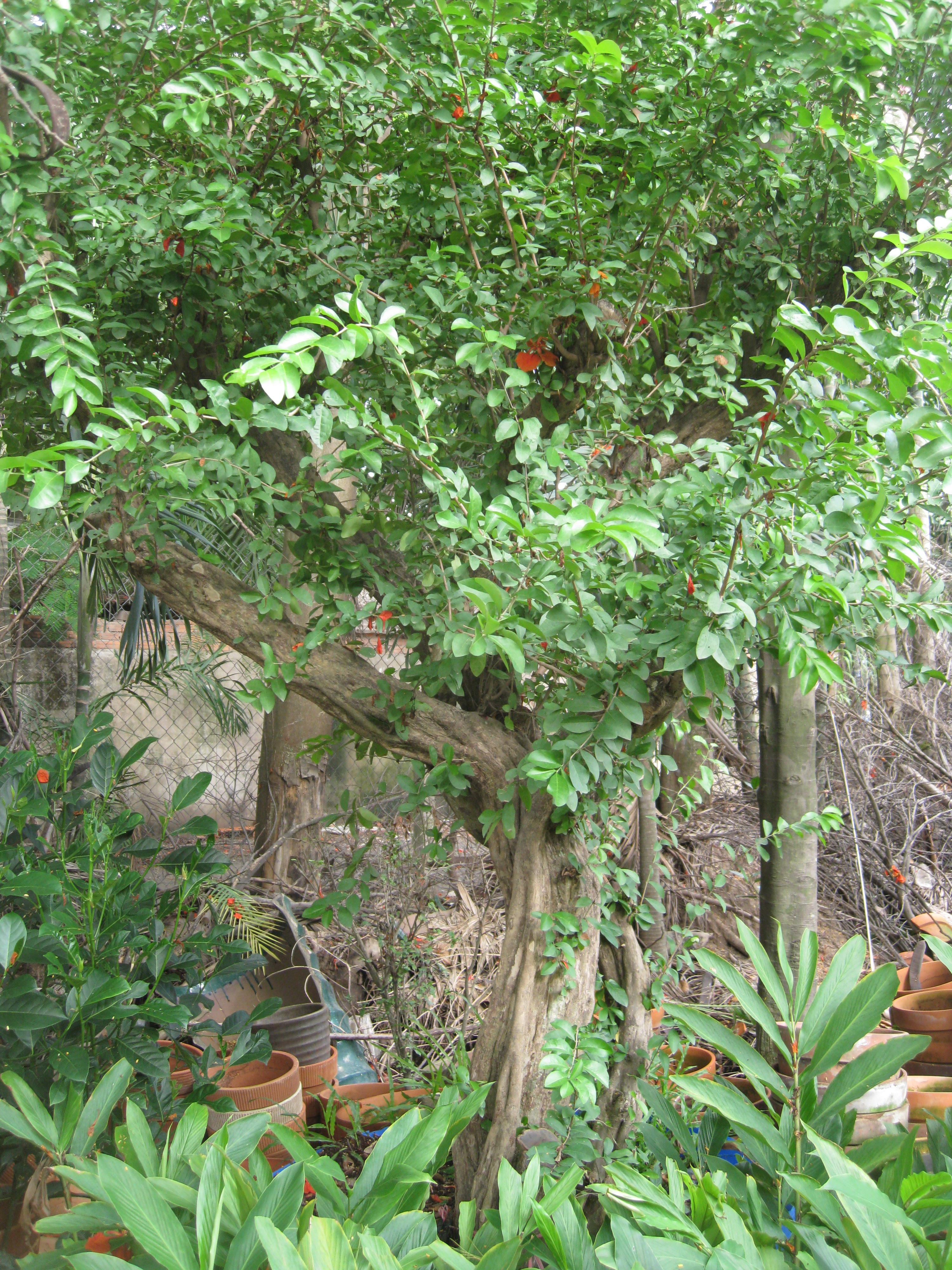 Malpighia glabra tree in Ho Chi Minh City.